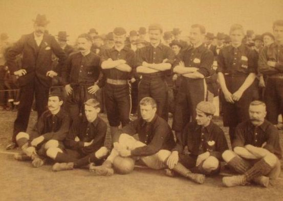 Albion Football Club en 1898